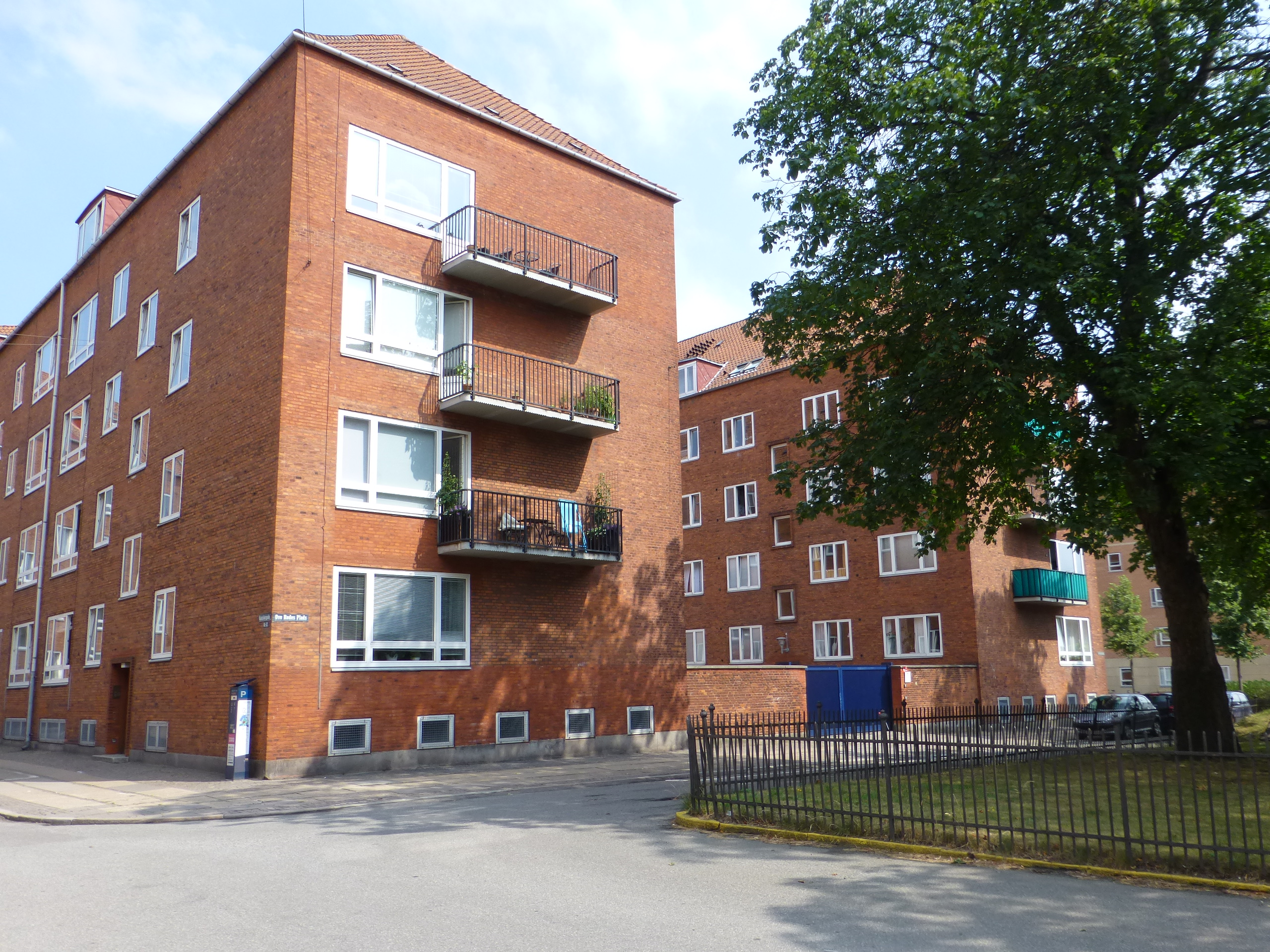 The square Ove Rodes Plads in Østerbro in Copenhagen. The building complex Kanslergården.